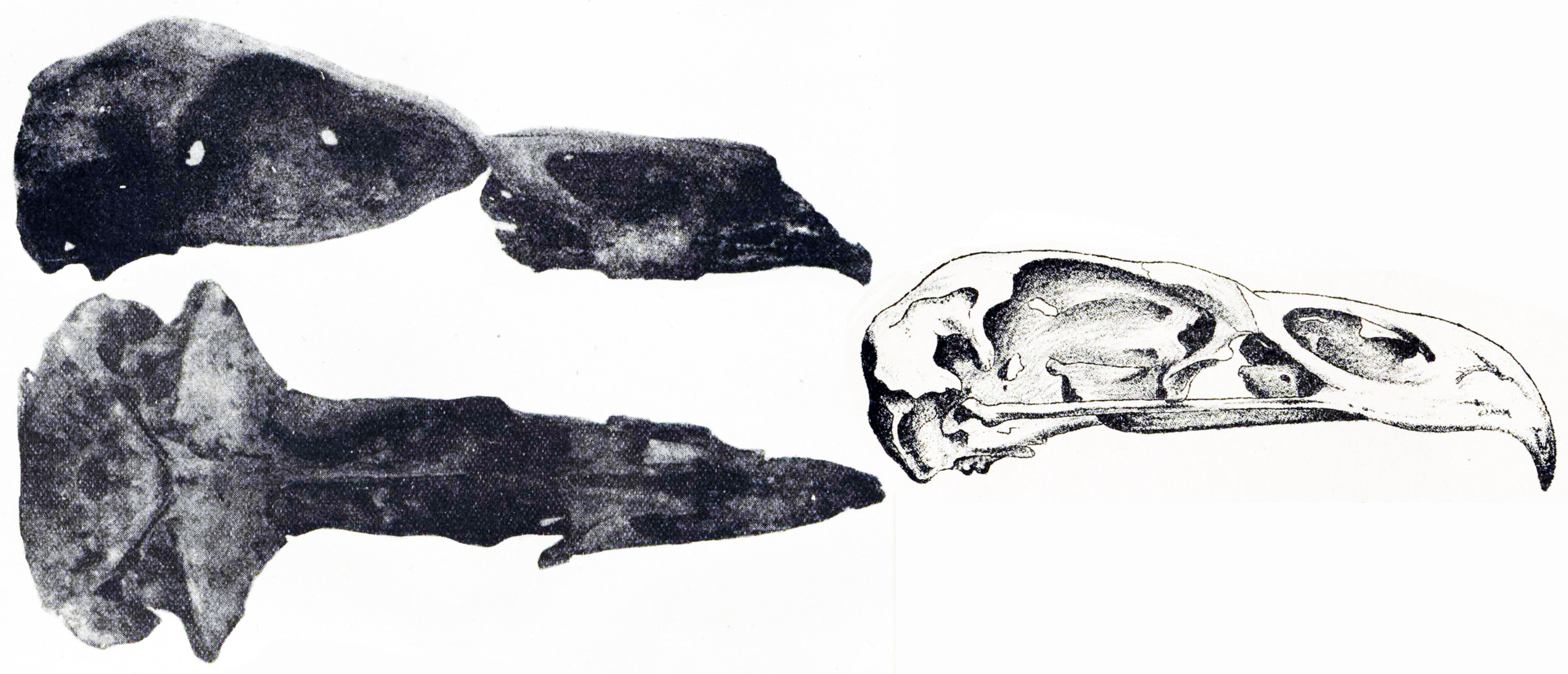 Art. XI.—On the Fissures and Caves at the Castle Rocks, Southland; with a Description of the Remains of the Existing and Extinct Birds found in them from Transactions and Proceedings of the Royal Society of New Zealand (1892). Result of a Further Exploration of the Bonefissure at the Castle Rocks, Southland from Transactions and Proceedings of the Royal Society of New Zealand (1893).